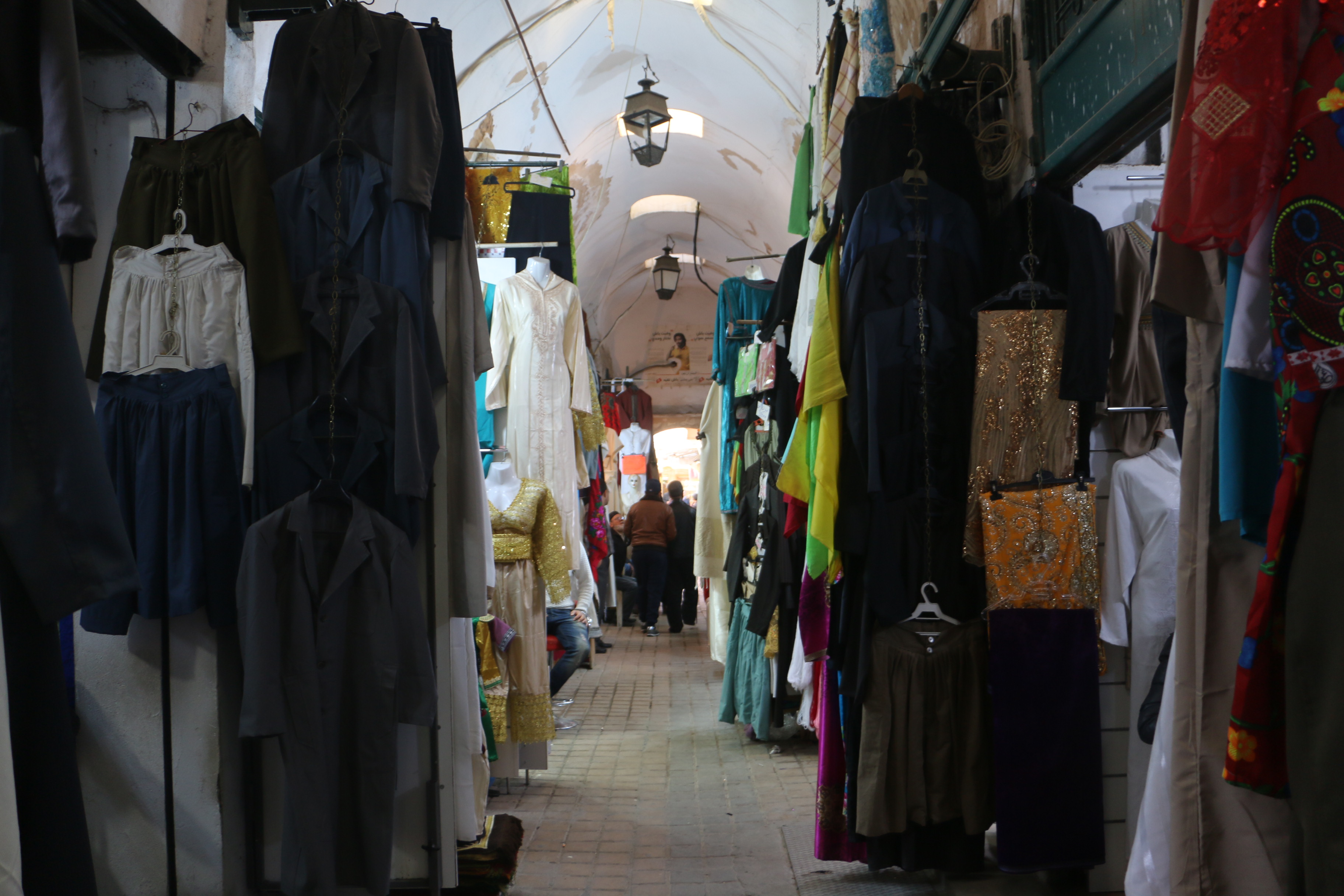 souk rbaa